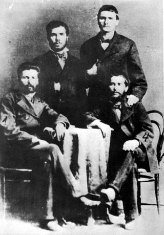 Bulgarian revolutionaries (left to right) Zahari Stoyanov (1850-1889), Stefan Stambolov (1854-1895), Stoyan Zaimov (1853-1932), and Nikola Obretenov (1849-1939)